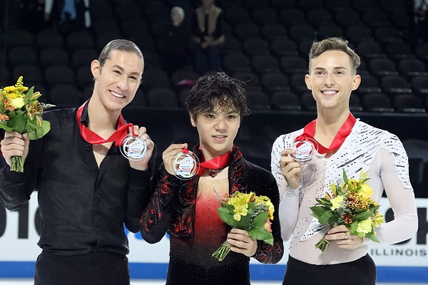 he men's podium at the 2014 Skate America. From left: Jason Brown (2nd); Shoma Uno (1st); Adam Rippon (3rd).